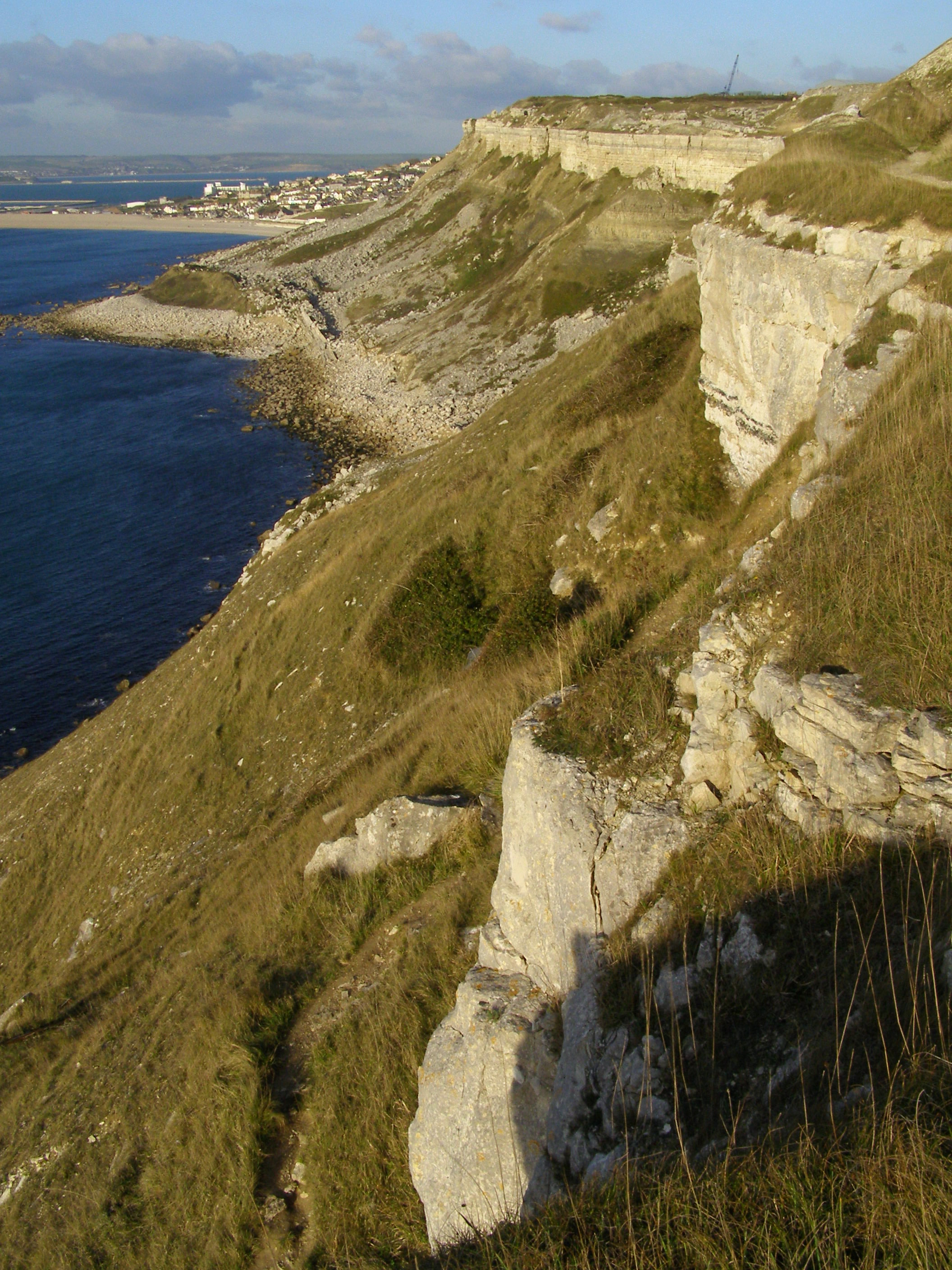 A view along the West Cliff on the Isle of Portland, above Clay Ope (the bay below). To the right are a number of old stone quarries.